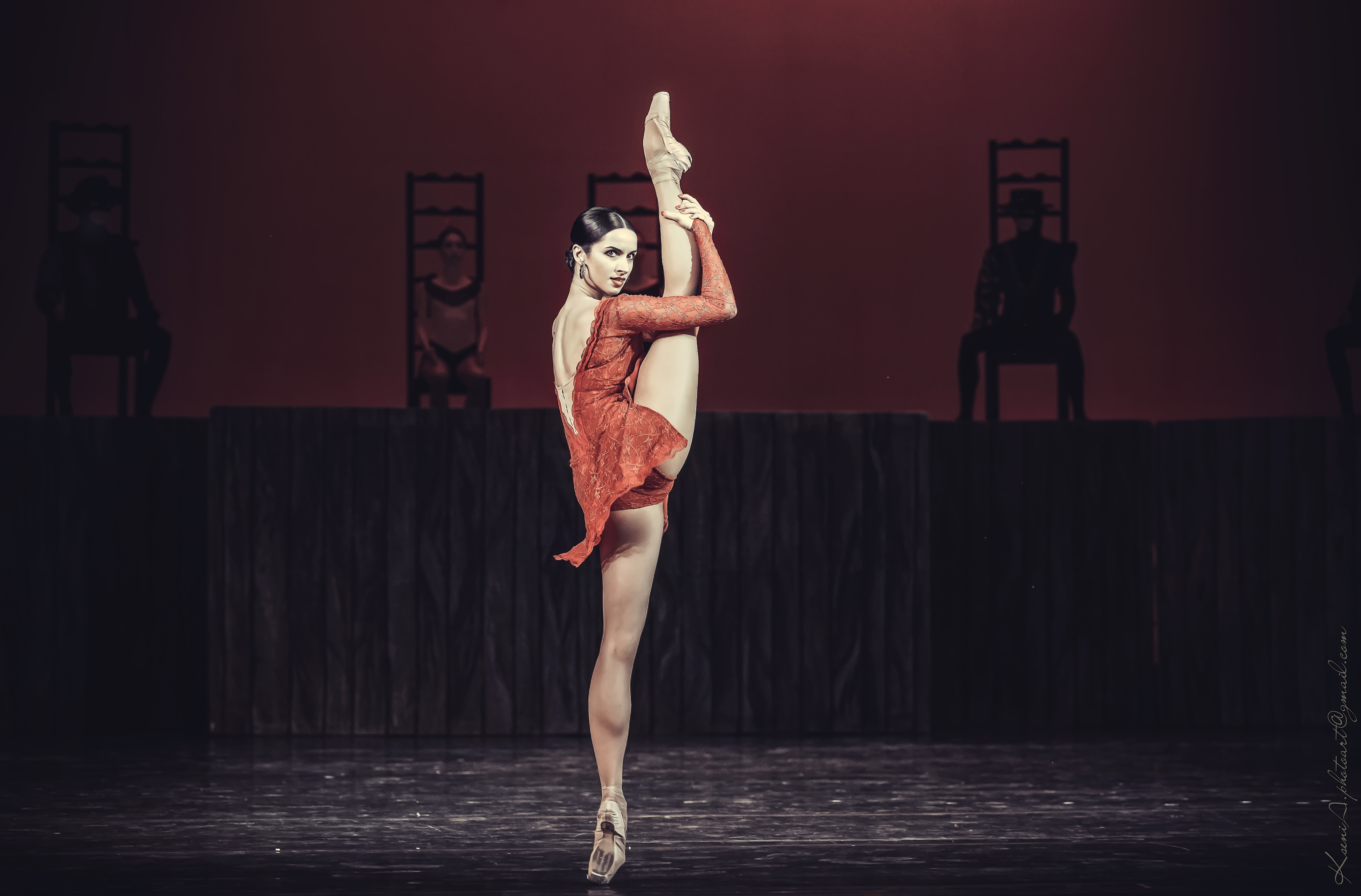 National Opera House of Ukraine_Carmen